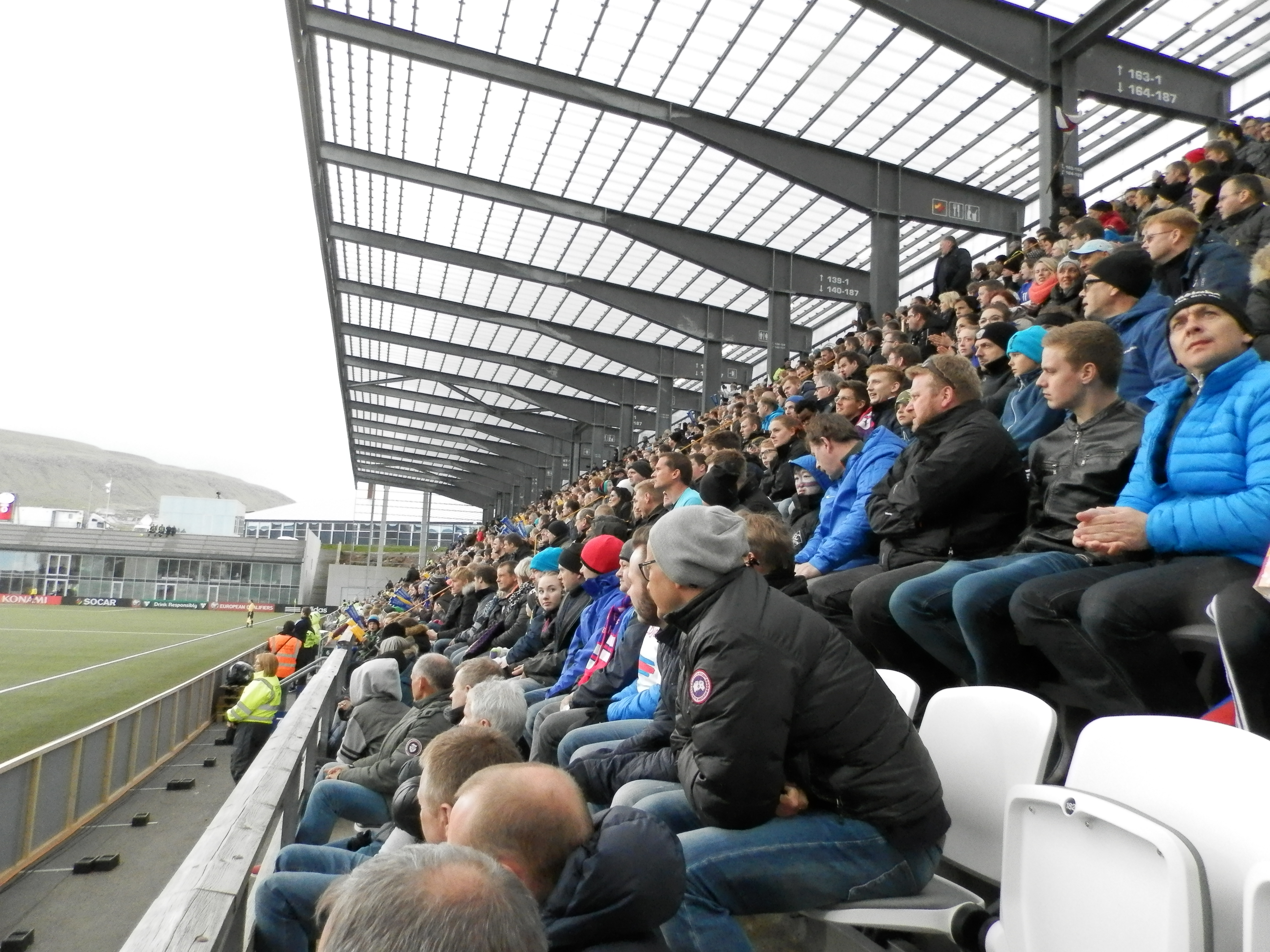 Tórsvøllur is the national stadion of the Faroe Islands national football team located in Tórshavn. There is also another national stadion whihch was used earlier, located on Svangaskarð in Toftir. This photo was taken on 13 June 2015 when the Faroe Islands won 2-1 against Greece.